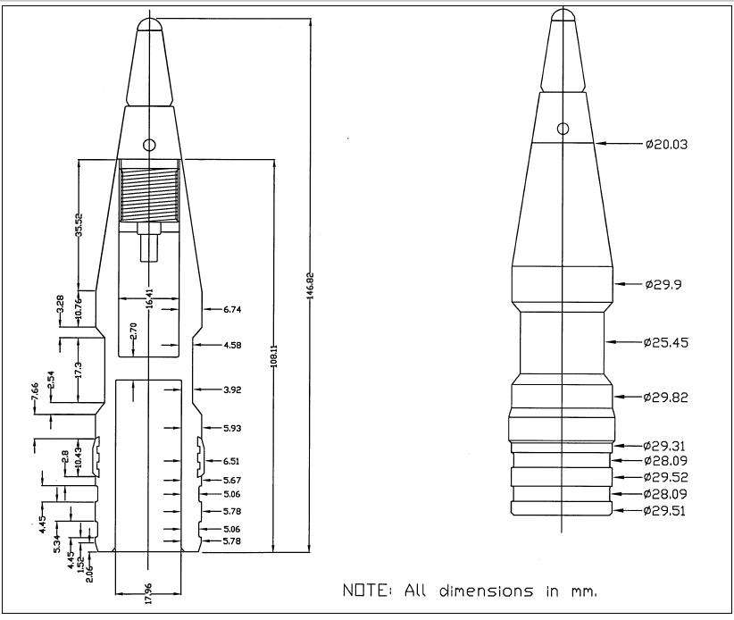 Drawing of a 30 mm High-explosive tracer shell used in 2A42 automatic cannon